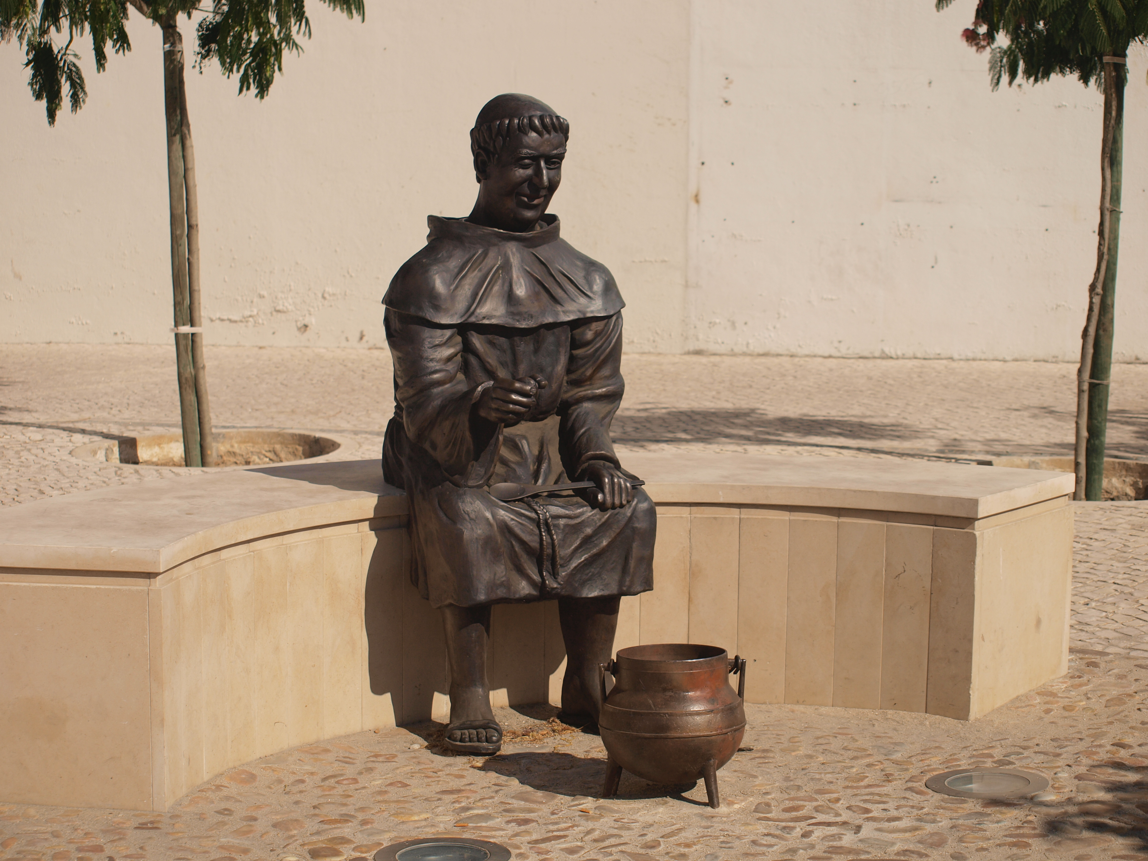 Statue of a monk and stone soup (sopa da pedra) in Almeirim, Portugal.